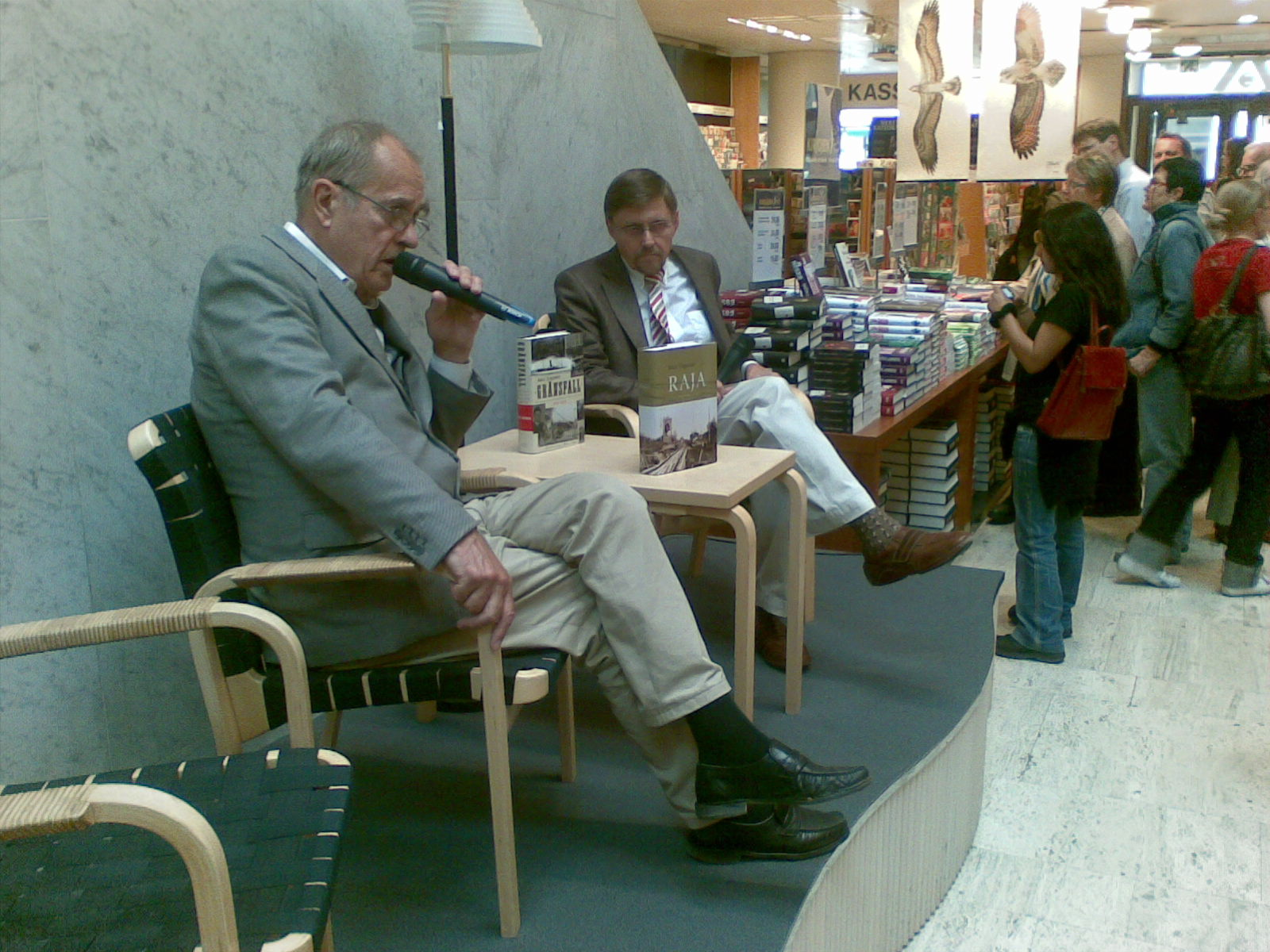 Jörn Donner with Max Engman in Akateeminen Kirjakauppa during the Night of the Arts event in Helsinki